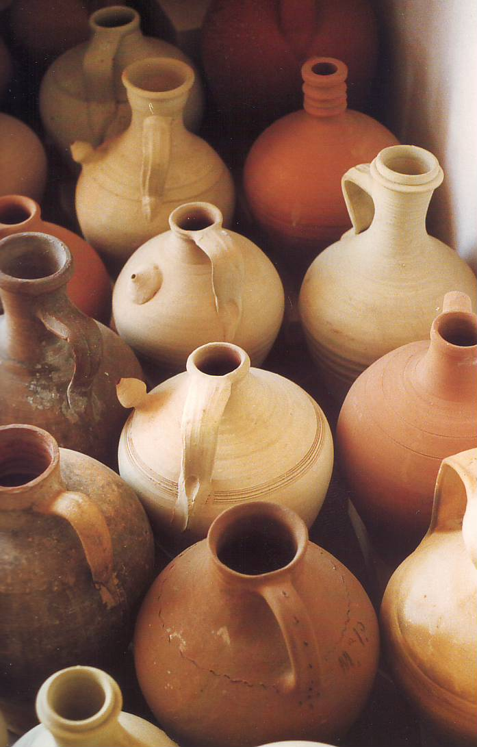 Ceramic jars, Museum Chinchilla Montearagón, Albacete, Spain. (Pilar Belmonte Useros conceptualization).